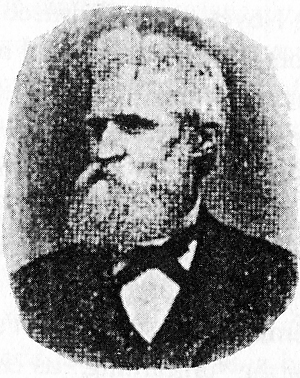 Henry Watkin (1824-1912), radical utopian, English printer in Cincinnati.